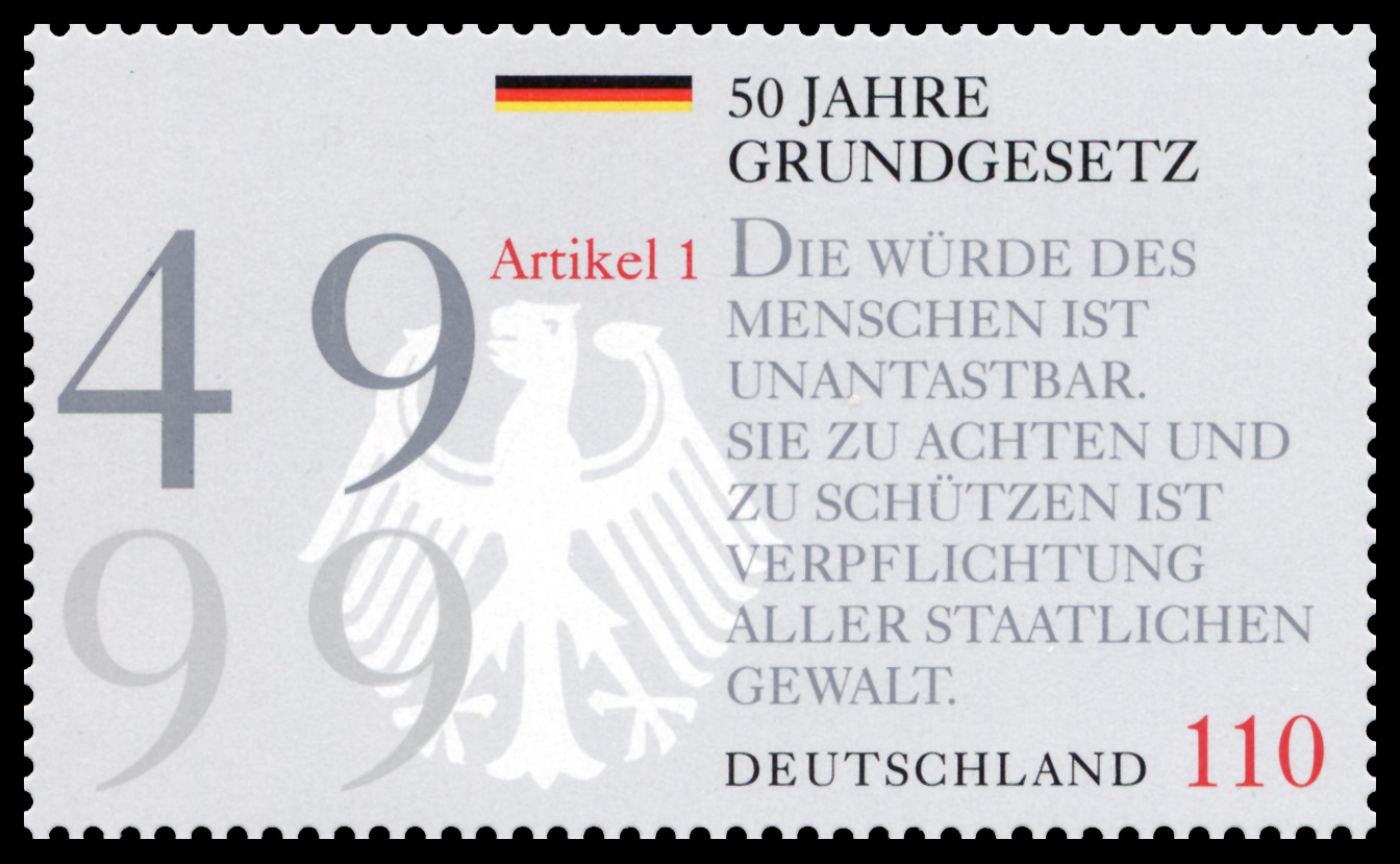 Stamp from Deutsche Post AG from 1999, 50th anniversary of Basic Law for the Federal Republic of Germany